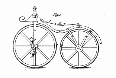 Original pedal-driven bicycle (velocipede) as it appears in Pierre Lallement's US Patent No. 59,915 drawing, 1866.